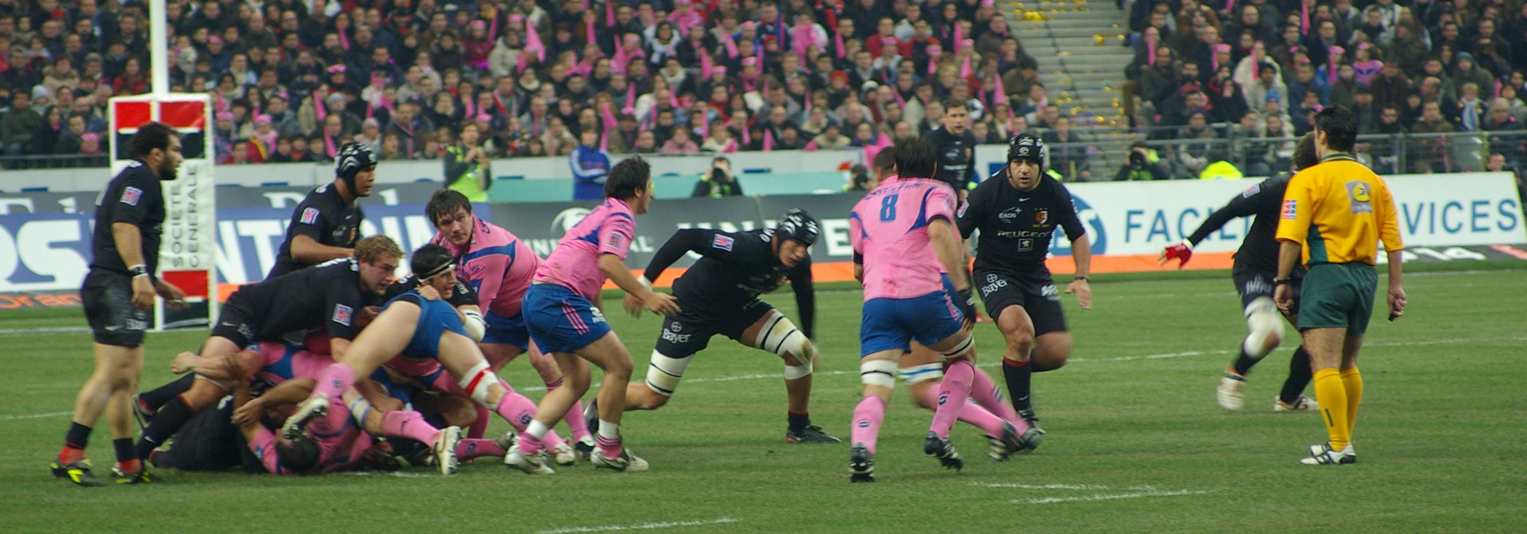 Pictures from the rugby game Stade Français vs Stade toulousain which took place in Stade de France, Paris, 27/01/2007.